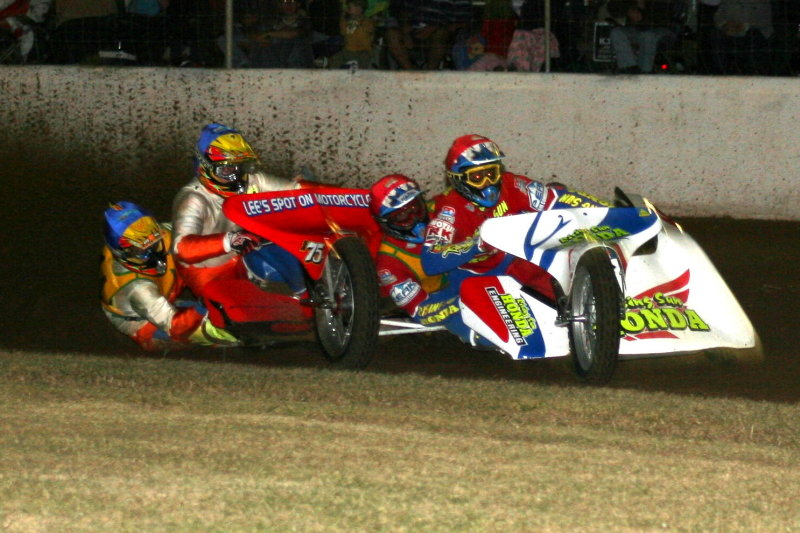 Scott Christopher and Mark Plaisted